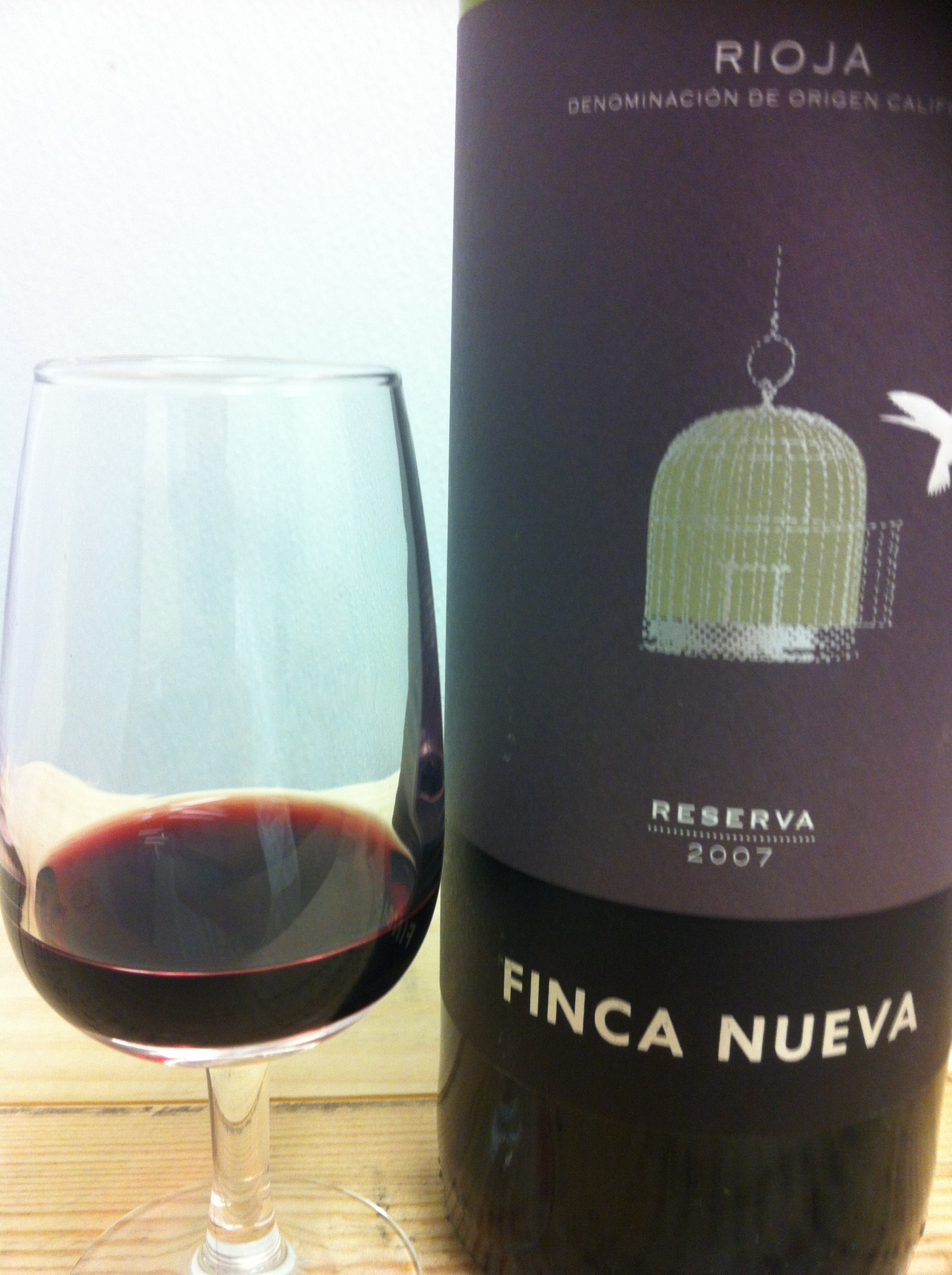 Spanish Tempranillo based wine from the Rioja region